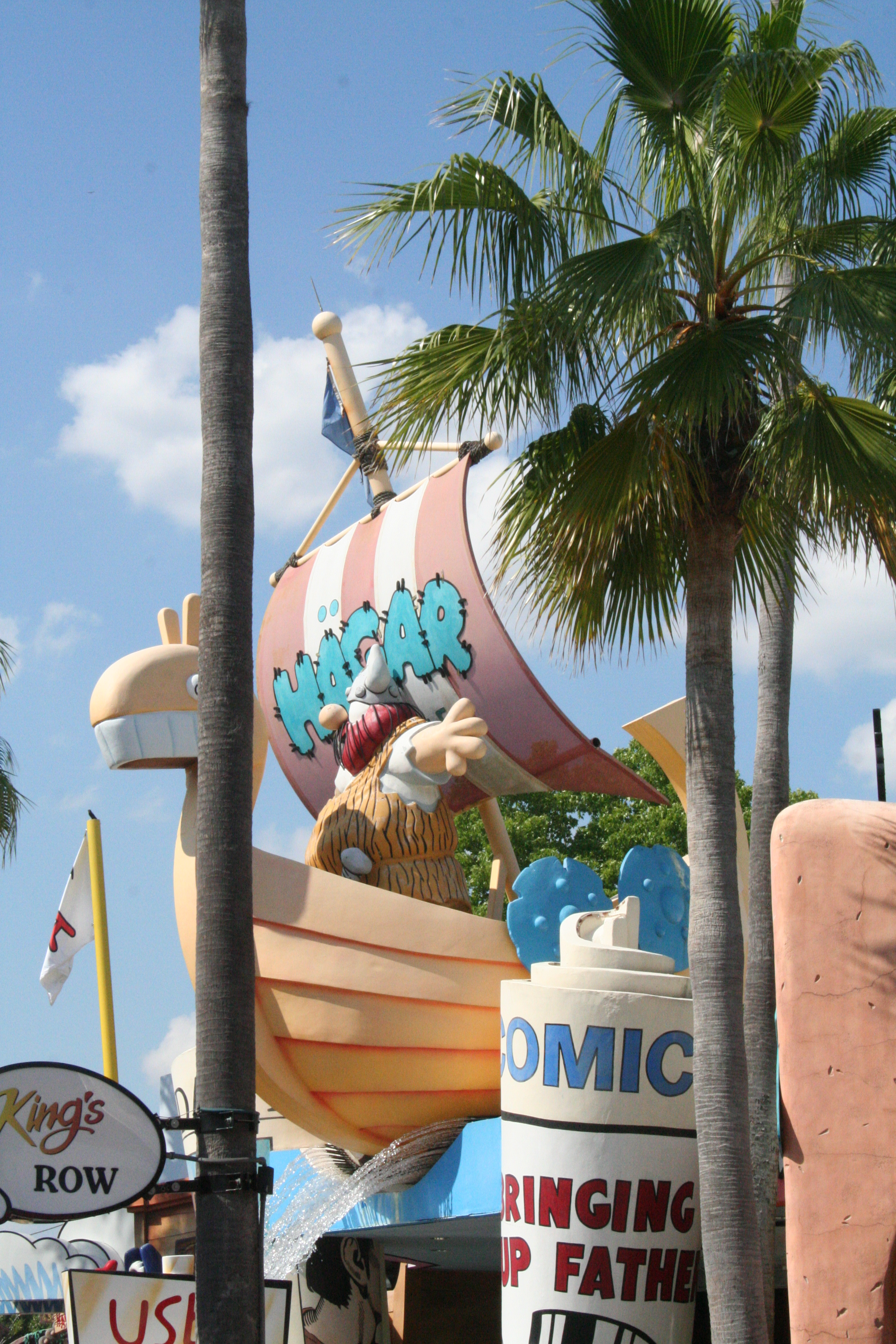 Facade of Hagar The Horrible themed gift shop at Islands of Adventure in Orlando, FL